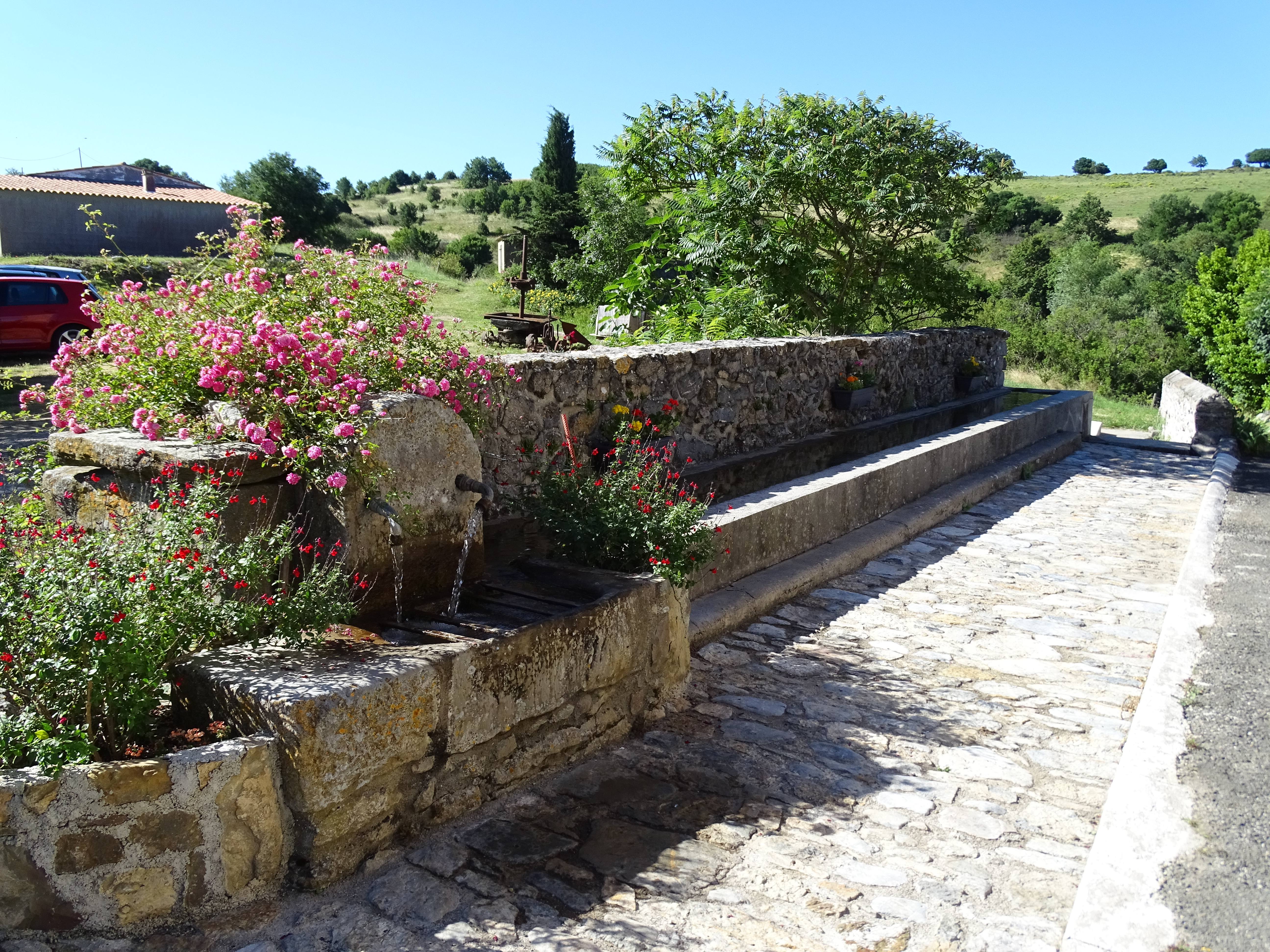 Fountain in Salza, Aude, France